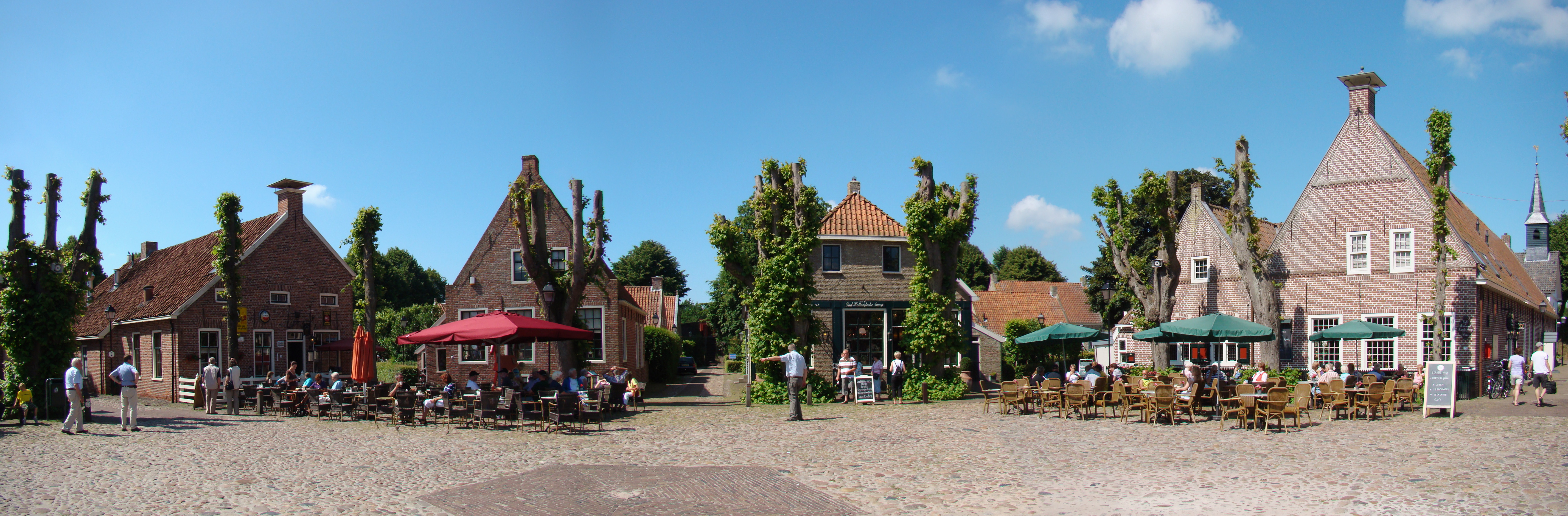 Impressions of Bourtange, Netherlands Plein